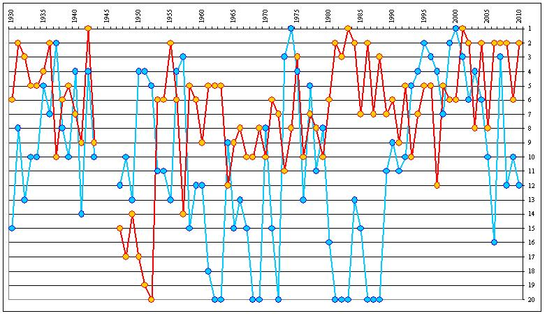 AS Roma and SS Lazio historical positions in Serie A